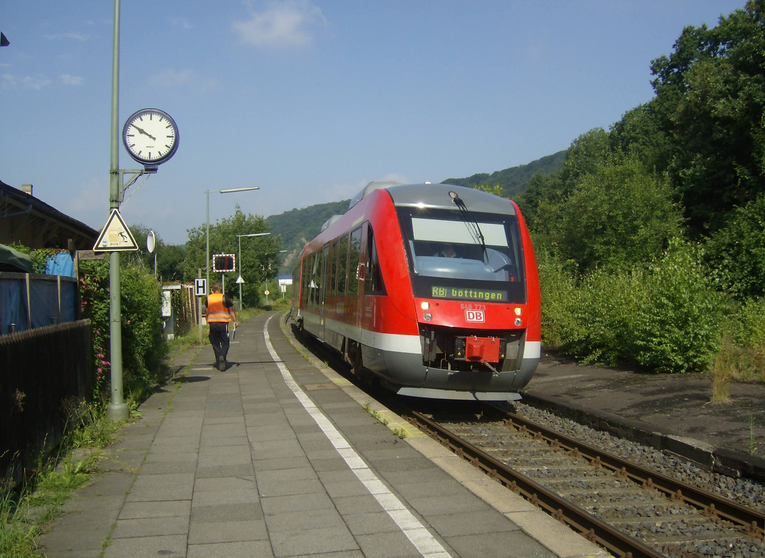 A Lint 41 set arrives at Bad Karlshafen railway station